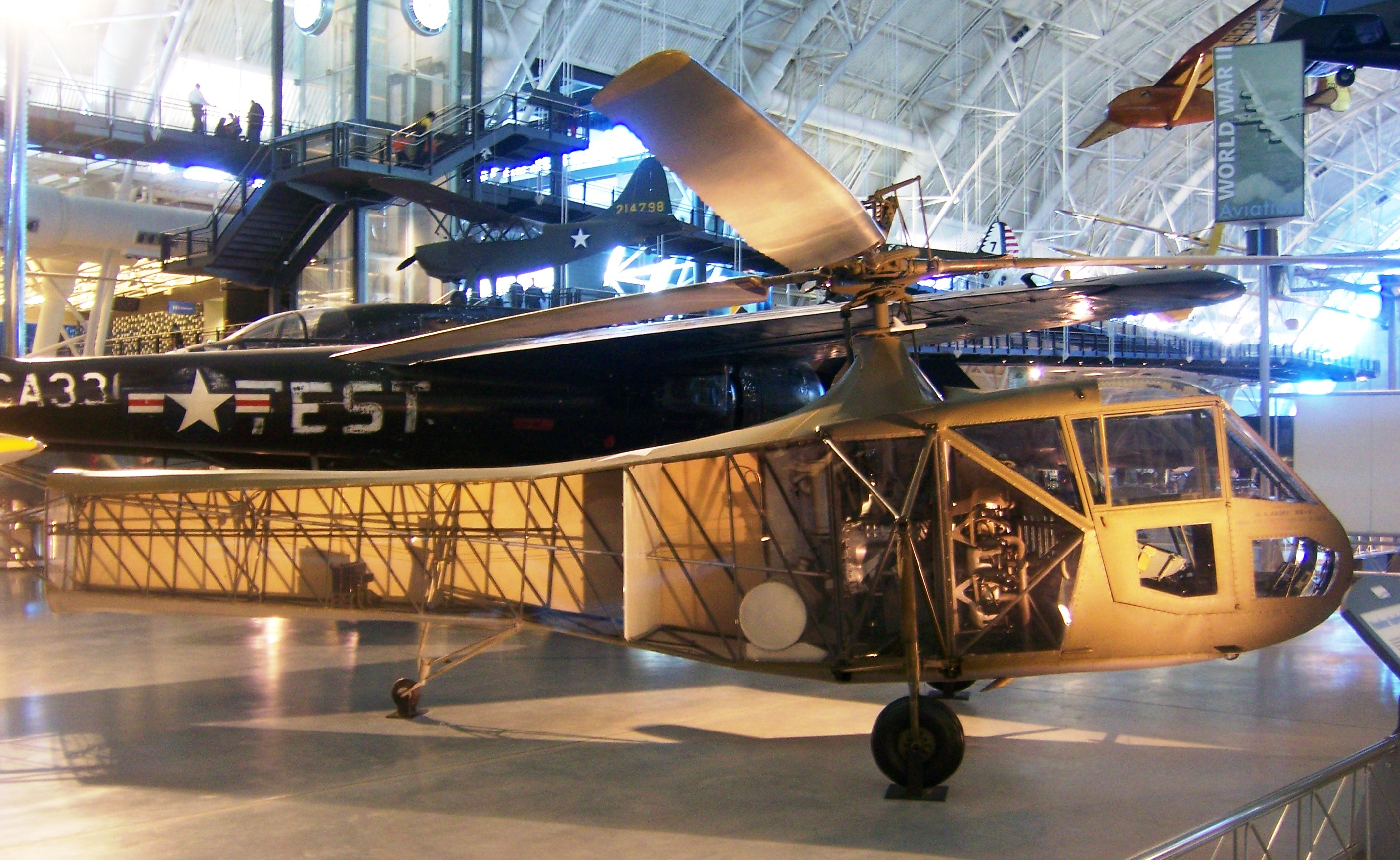 Vought-Sikorsky XR-4C in Steven F. Udvar-Hazy Center